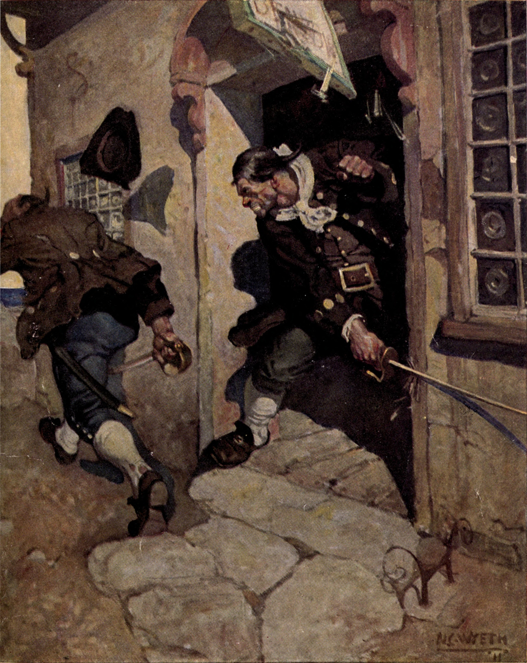 Black Dog being chased from the Admiral Benbow Inn by Captain Billy Bones. Artwork by N. C. Wyeth.